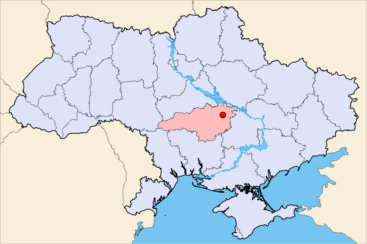 Description = Oleksandrija geographical position Source = own work, Skluesener Date = 22.01.2006 Author = Skluesener Credits = Colours chosen according to a map of steschke